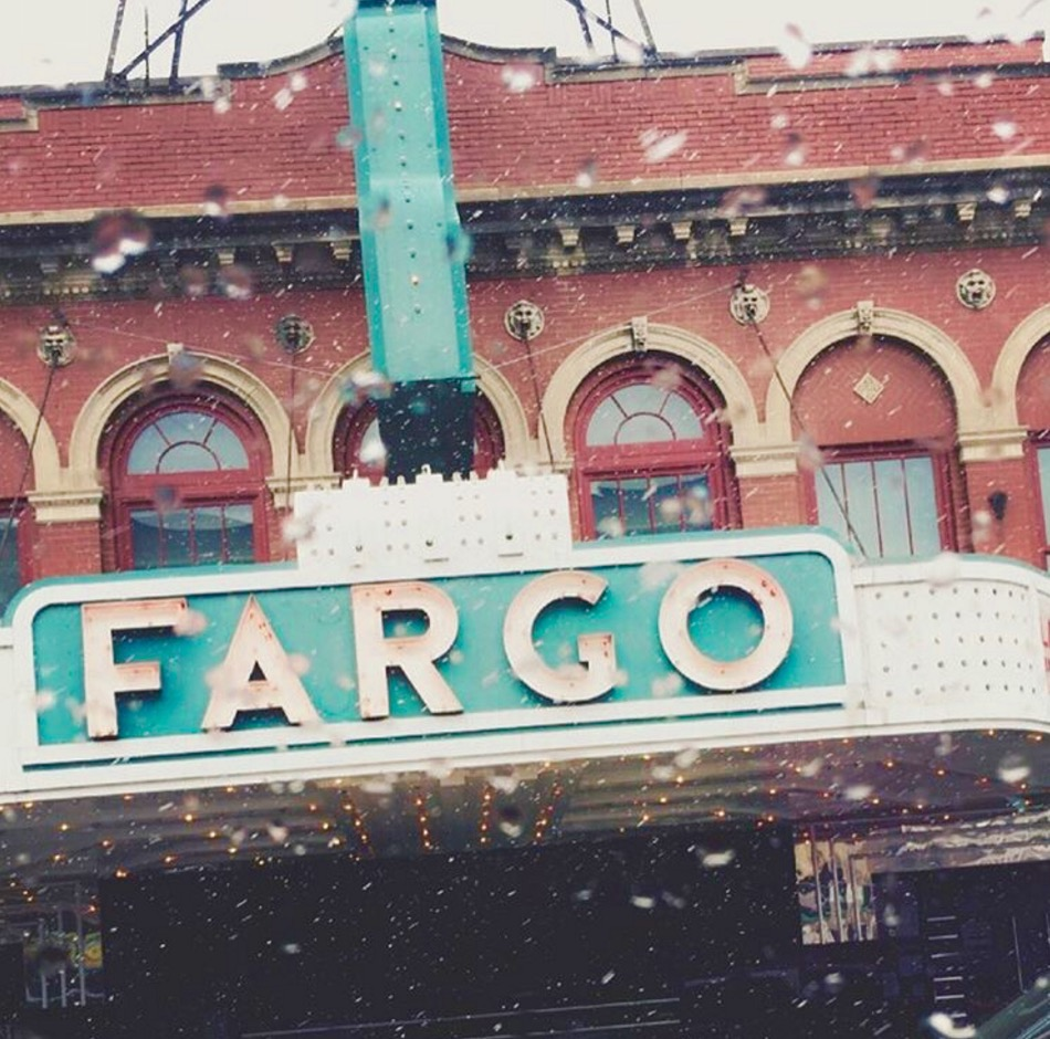 Downtown Fargo is a wonderful place full of wonderful, friendly people.